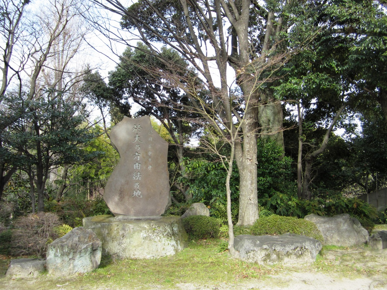 The site of Shiinoki Residence where Odainokata, Tokugawa Ieyasu's mother, lived after divorce.